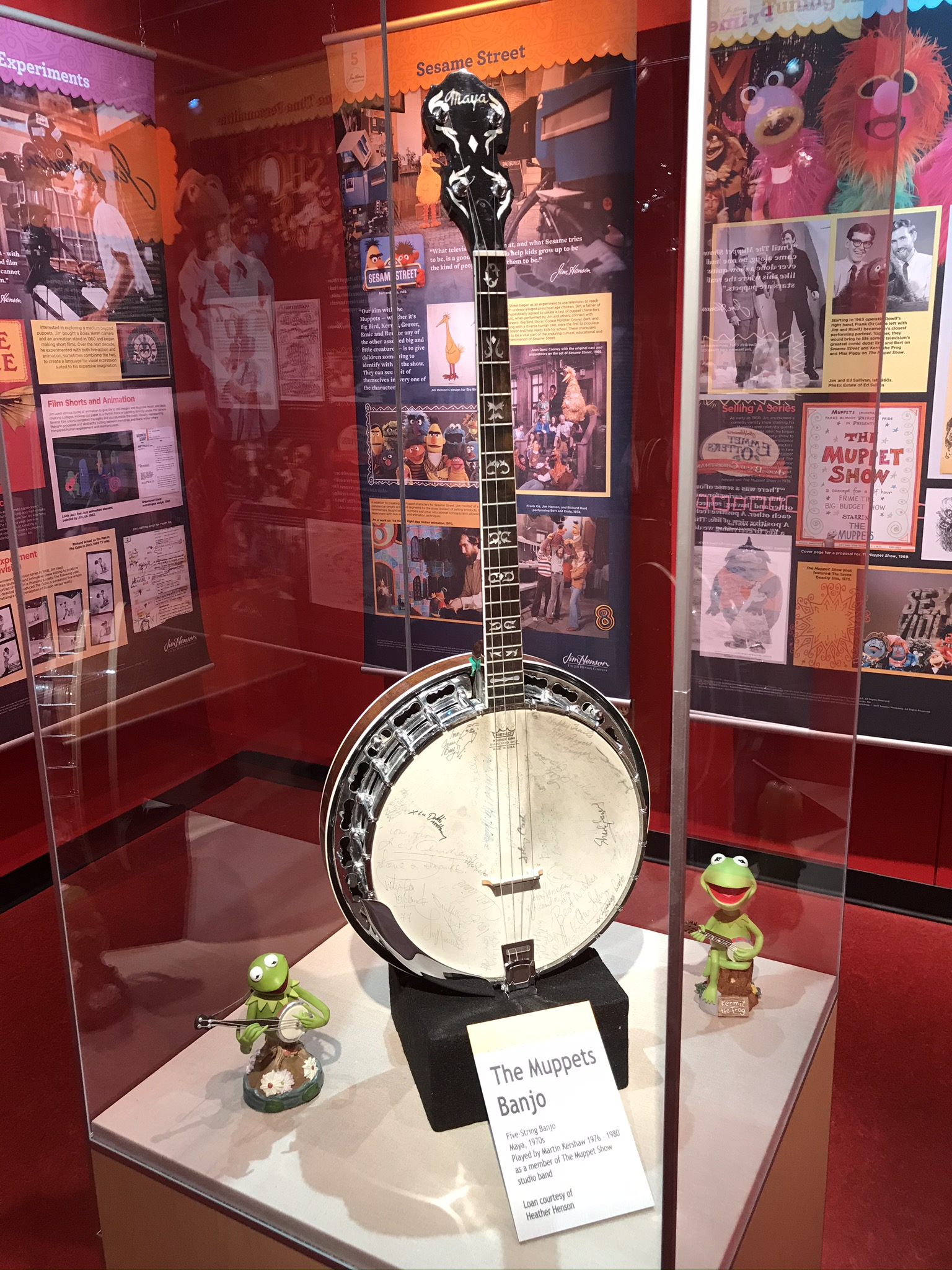 On display at the American Banjo Museum in 2019-2020 was a five-string Maya banjo, formerly owned and played by Martin Kershaw. The banjo had appeared on as many as 7000 recordings with stars. Kershaw later played his banjo as a member of the Muppet Show studio band, and it was he who provided the music that the audience heard Kermit the Frog play. Prior to working on the Muppet Show, Kershaw had played for the British Royal Family, playing in variety shows for them. His Maya banjo was also signed by many famous musicians, including Julie Andrews, Gene Kelly, Roy Rogers, Johnny Cash, Elton John, Diana Ross and Peter Sellers.[29]